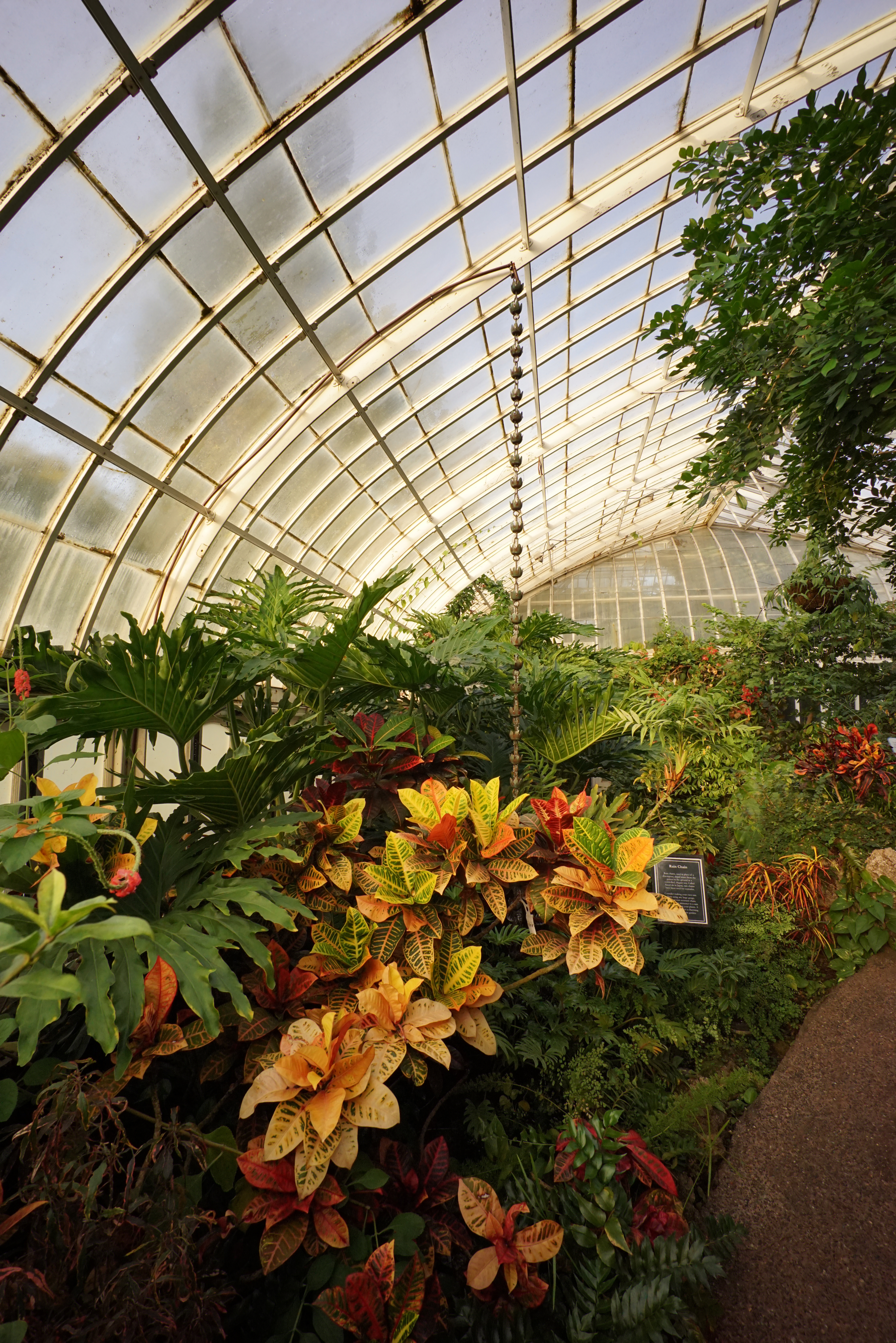 The Phipps Conservatory and Botanical Gardens is a complex of buildings and grounds set in Schenley Park, Pittsburgh, Pennsylvania. Founded in 1893, the gardens serve to educate and entertain the people of Pittsburgh with formal gardens.